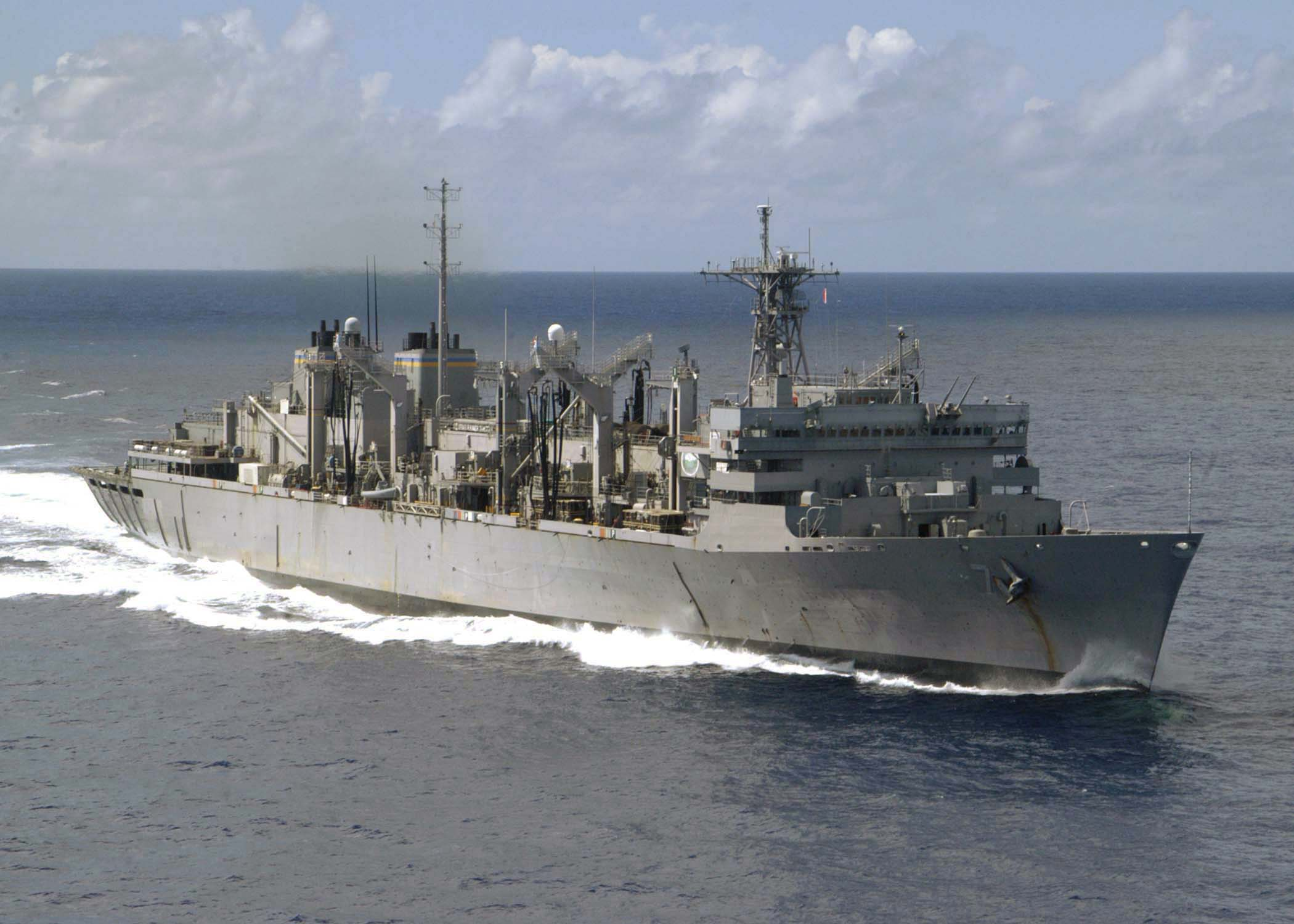 Pacific Ocean (Dec. 21, 2004) - The Military Sealift Command (MSC) fast combat support ship USNS Rainier (T-AOE 7) shown underway in the Western Pacific Ocean. Rainier is part of Carrier Strike Group Nine (CSG-9), the first to be used in the Surge Role in support of the Chief of Naval Operations Fleet Response Plan. U.S. Navy photo by Photographer's Mate Airman Patrick M Bonafede (RELEASED)